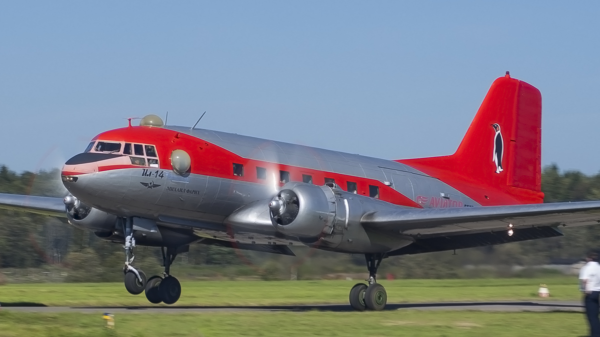 СССР-91612 IL14 Private | Penguin livery | by name Mikhail Farikh | UUTO